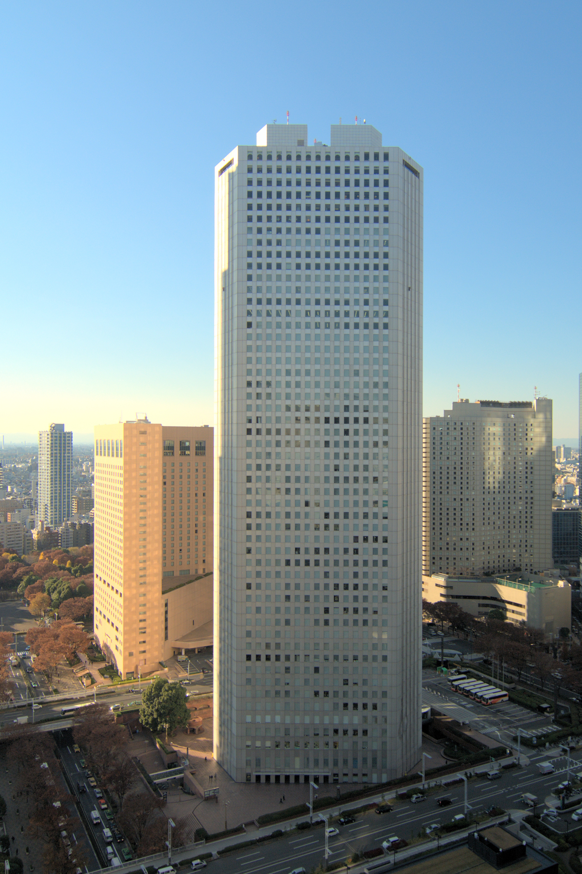 Shinjuku Sumitomo Building